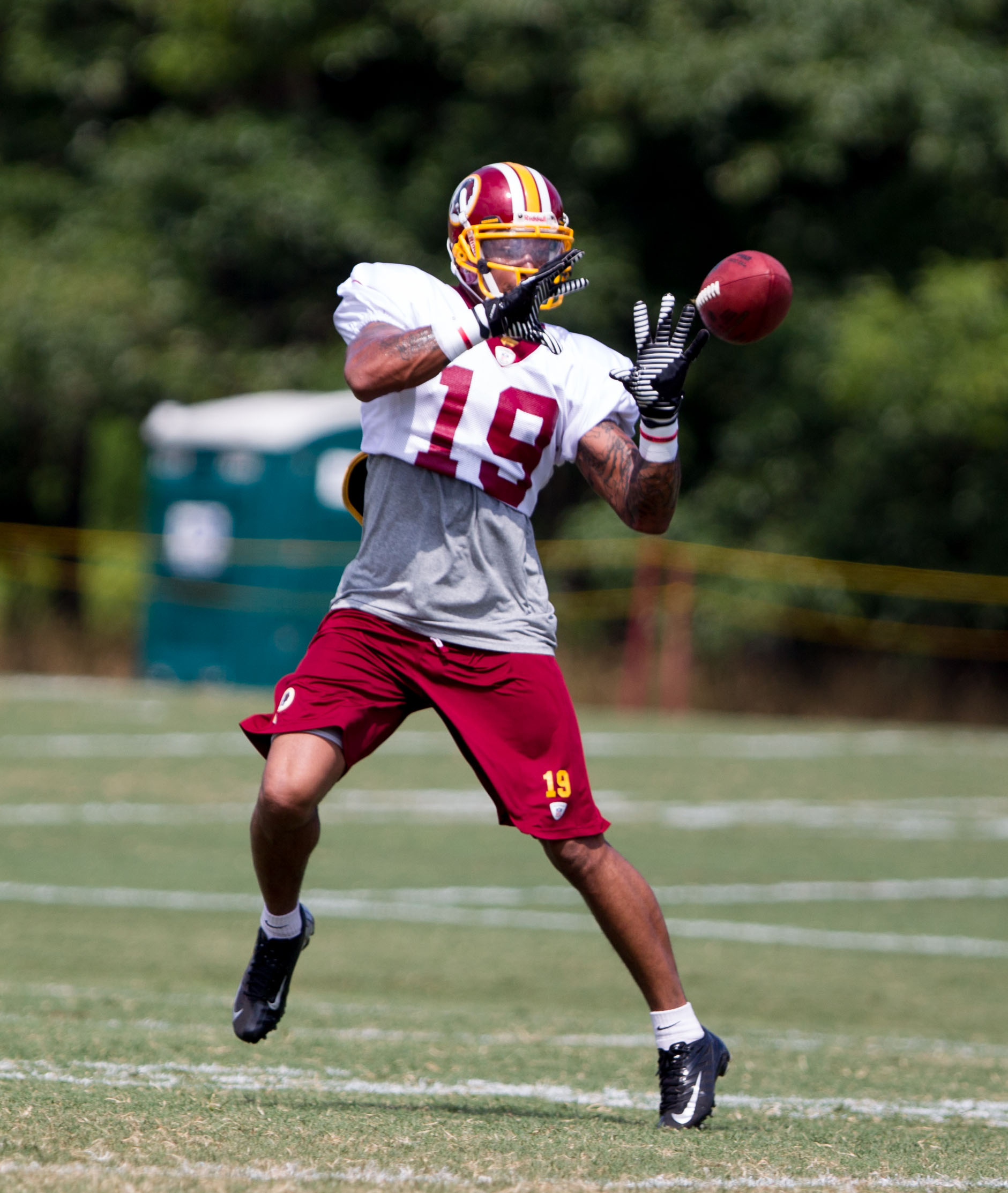 Dezmon Briscoe at Washington Redskins Training Camp July 30, 2012